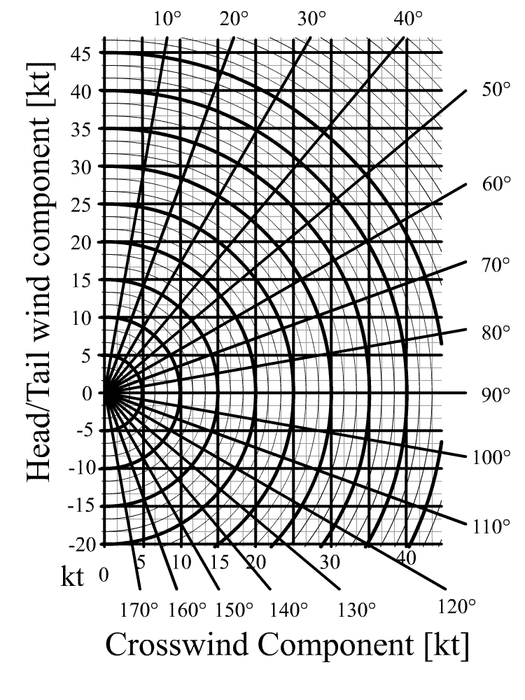 Crosswind Diagramm